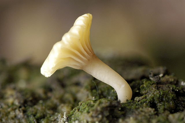 Lichenomphalia umbellifera from Commanster, Belgium. The determination of the species shown in this picture has been verified.